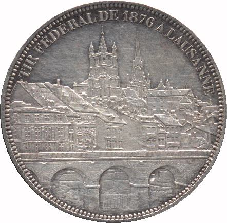 1876 Shooting Thaler Obverse